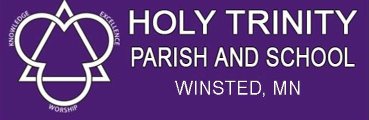 Minnesota high school logo/banner; contains text and version of trefoil-triangle Christian symbol.